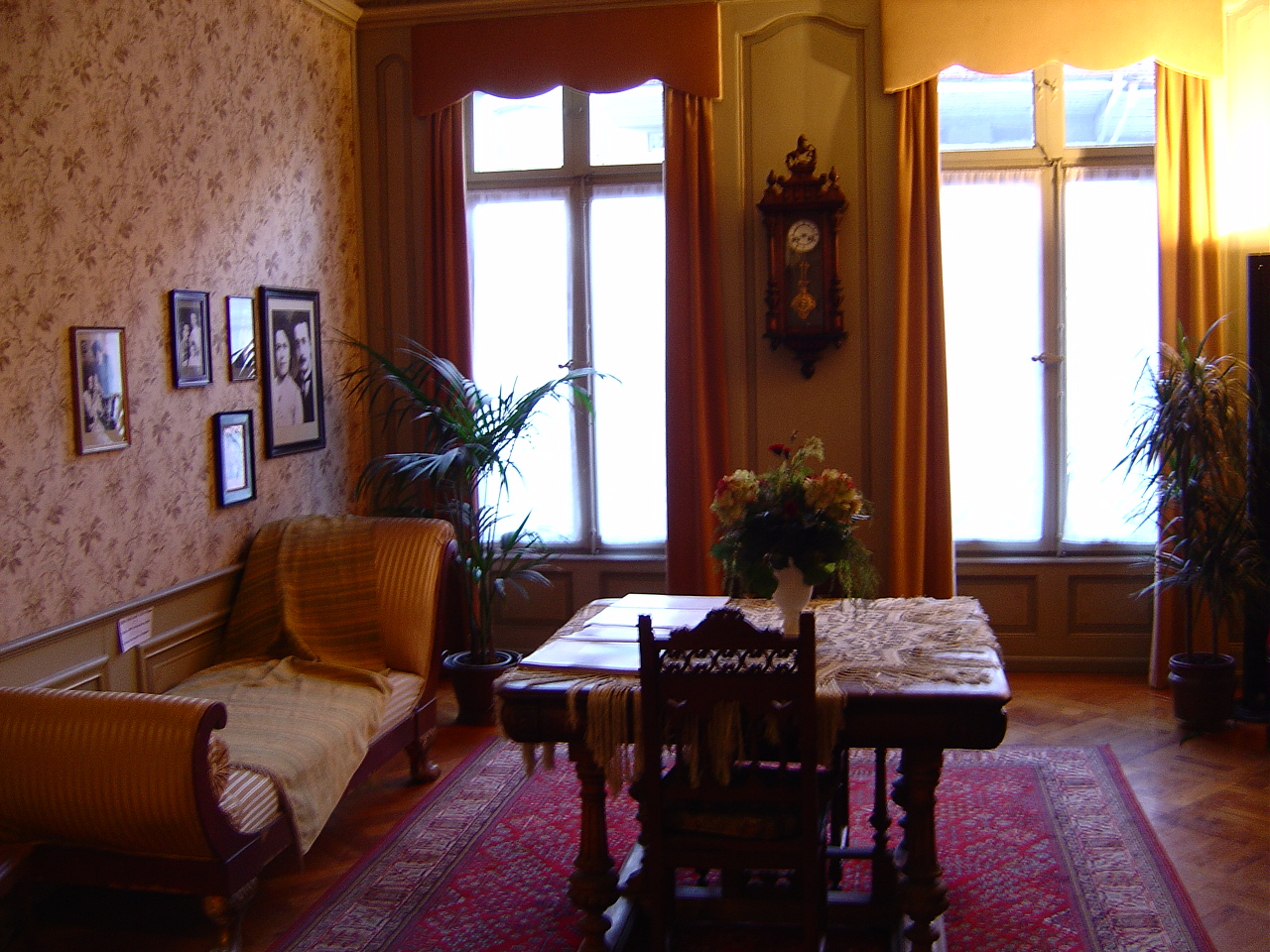 Einstein's House in Bern.